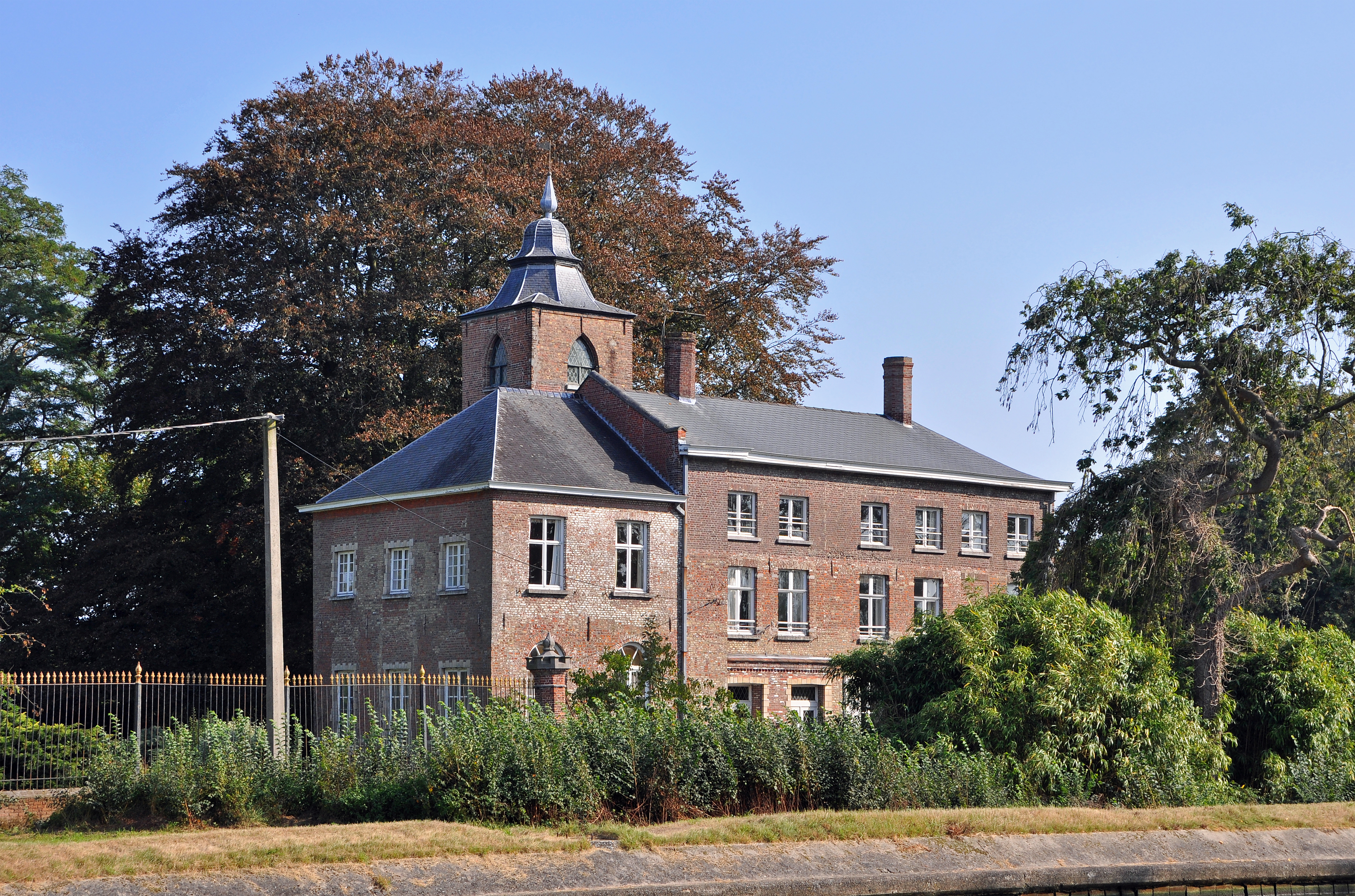 Oostkamp (Belgium): Kevergem castle